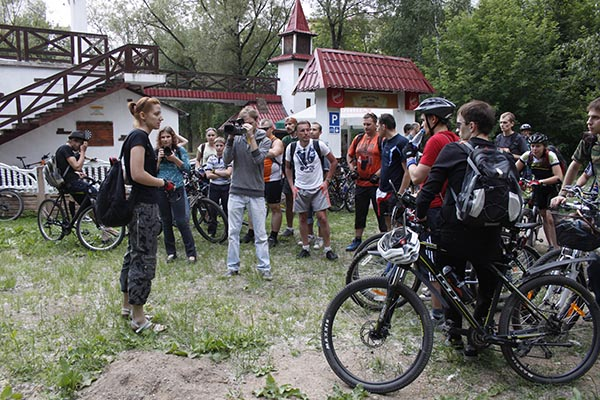 The "bike helper" manual book presentation in Minsk